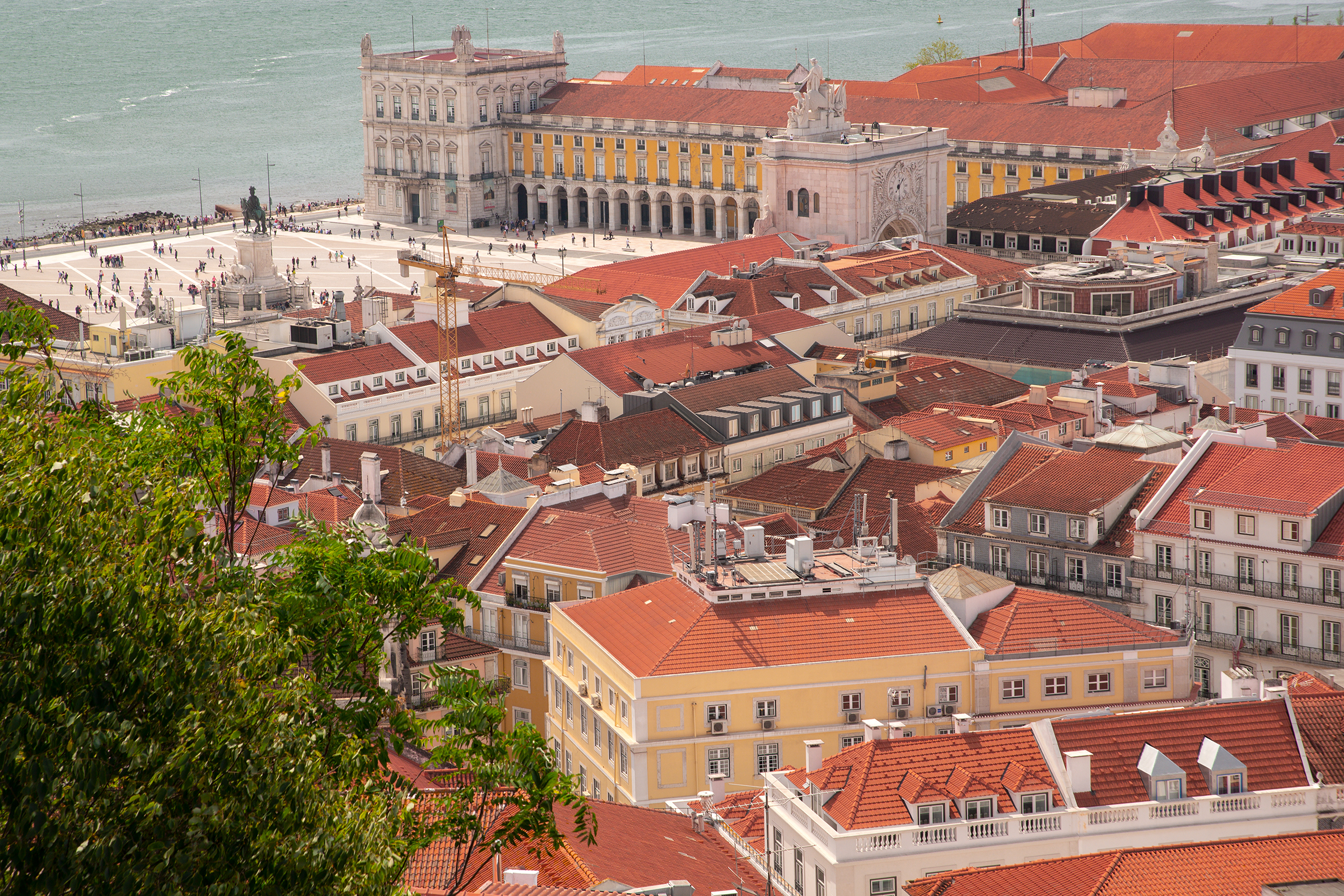 Lisbon: View from the São Jorge Castle, including the Praça do Comércio on the waterfront